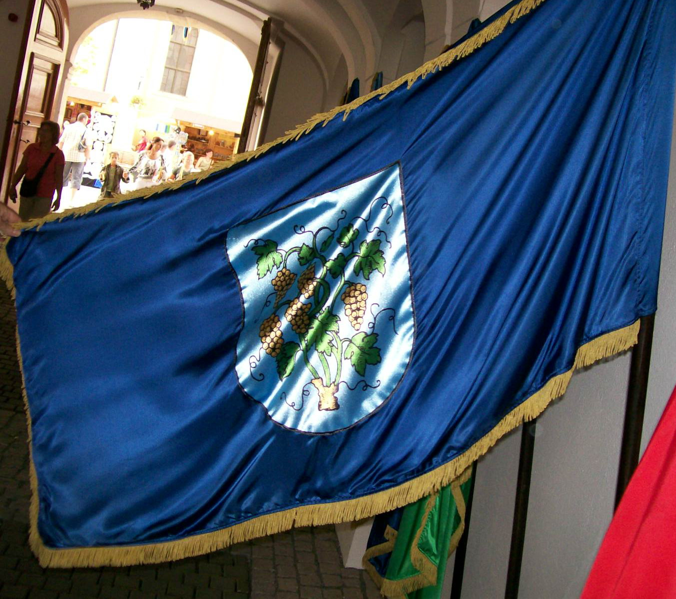 Flag of Municipality of Vinica, Varaždin County, Croatia ( reverse side of the flag)